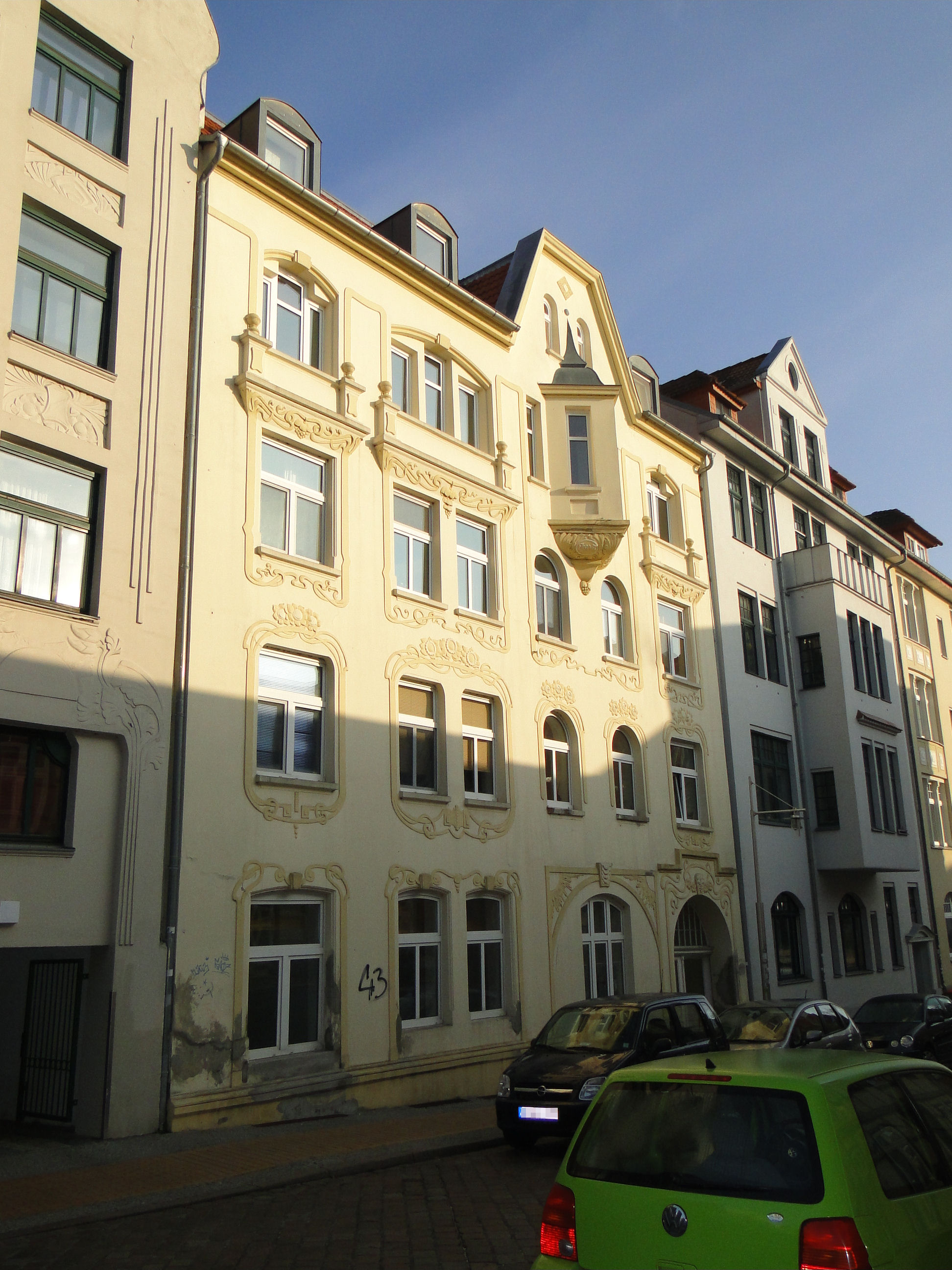 Street Kirchenstraße in Schwerin, Mecklenburg-Vorpommern, Germany